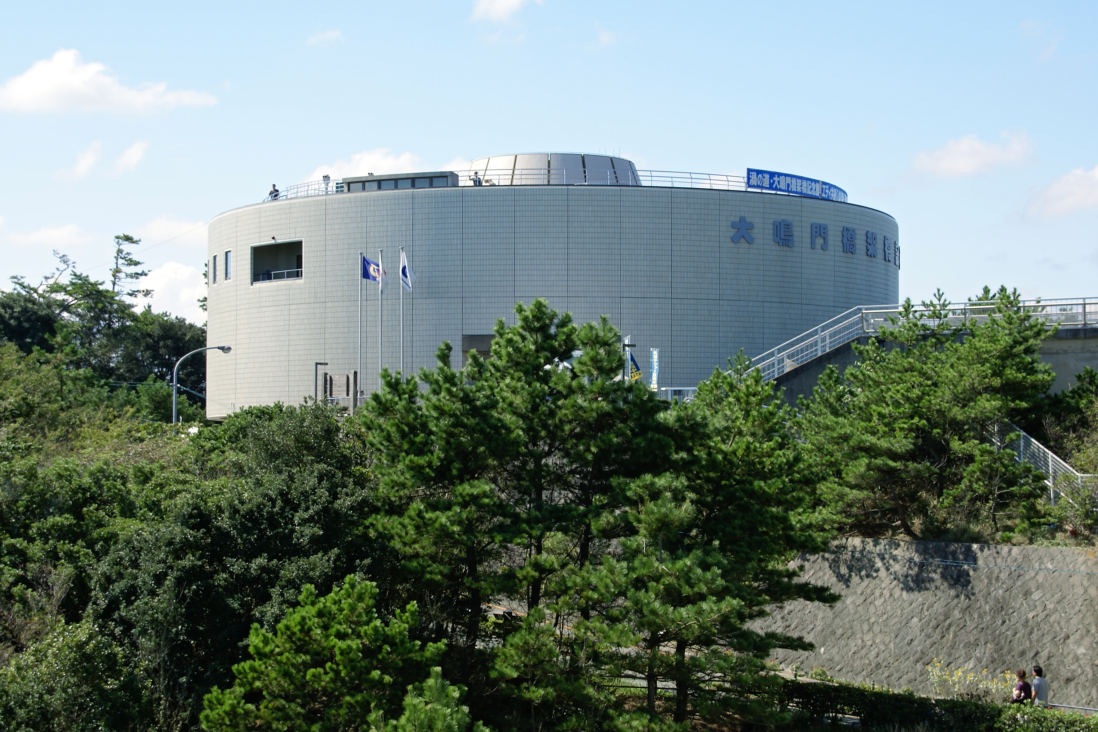 Big Naruto Bridge Memorial Museum "Eddy" in Naruto, Tokushima prefecture, Japan